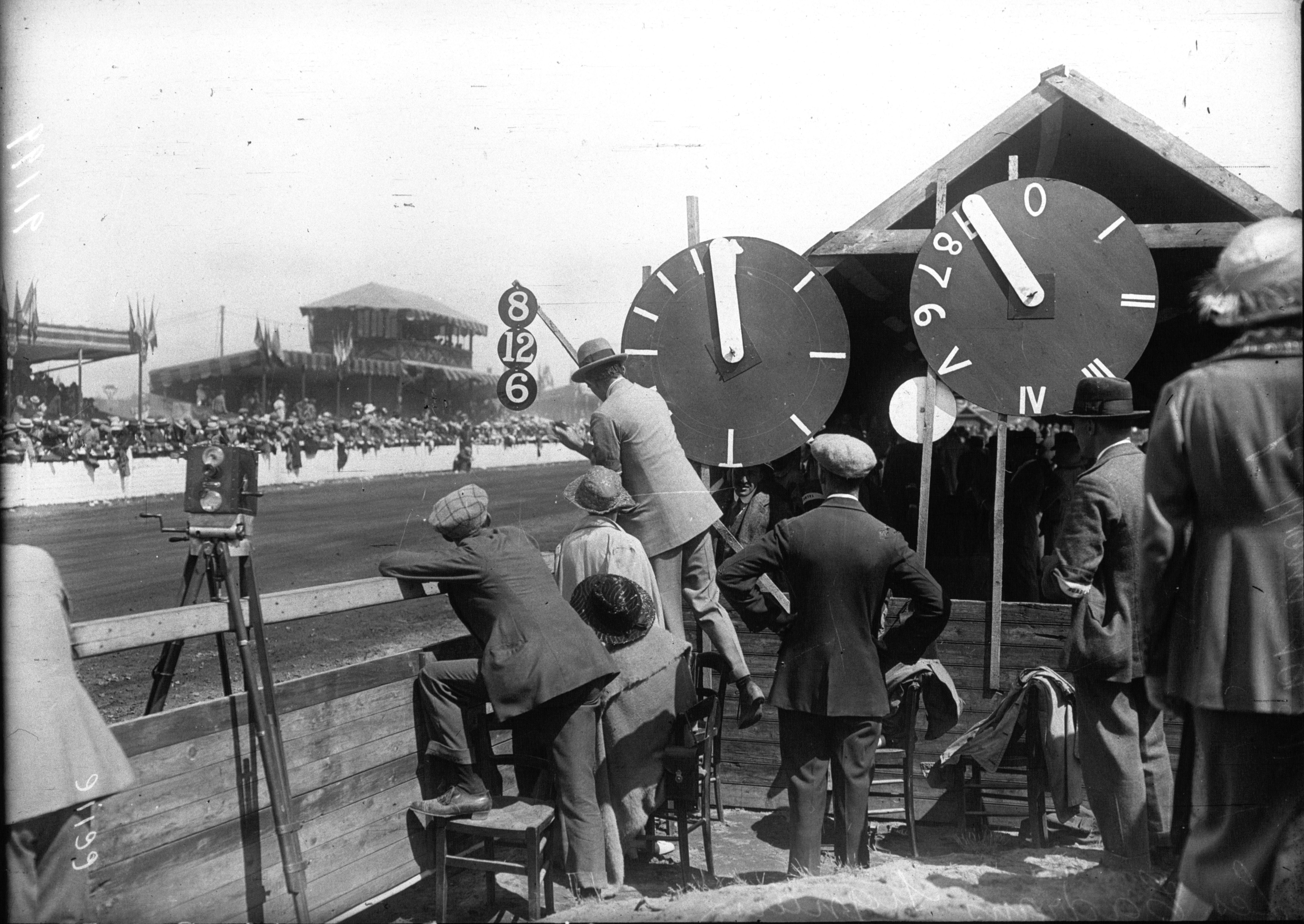 Signals for Sunbeam drivers at the 1921 French Grand Prix.